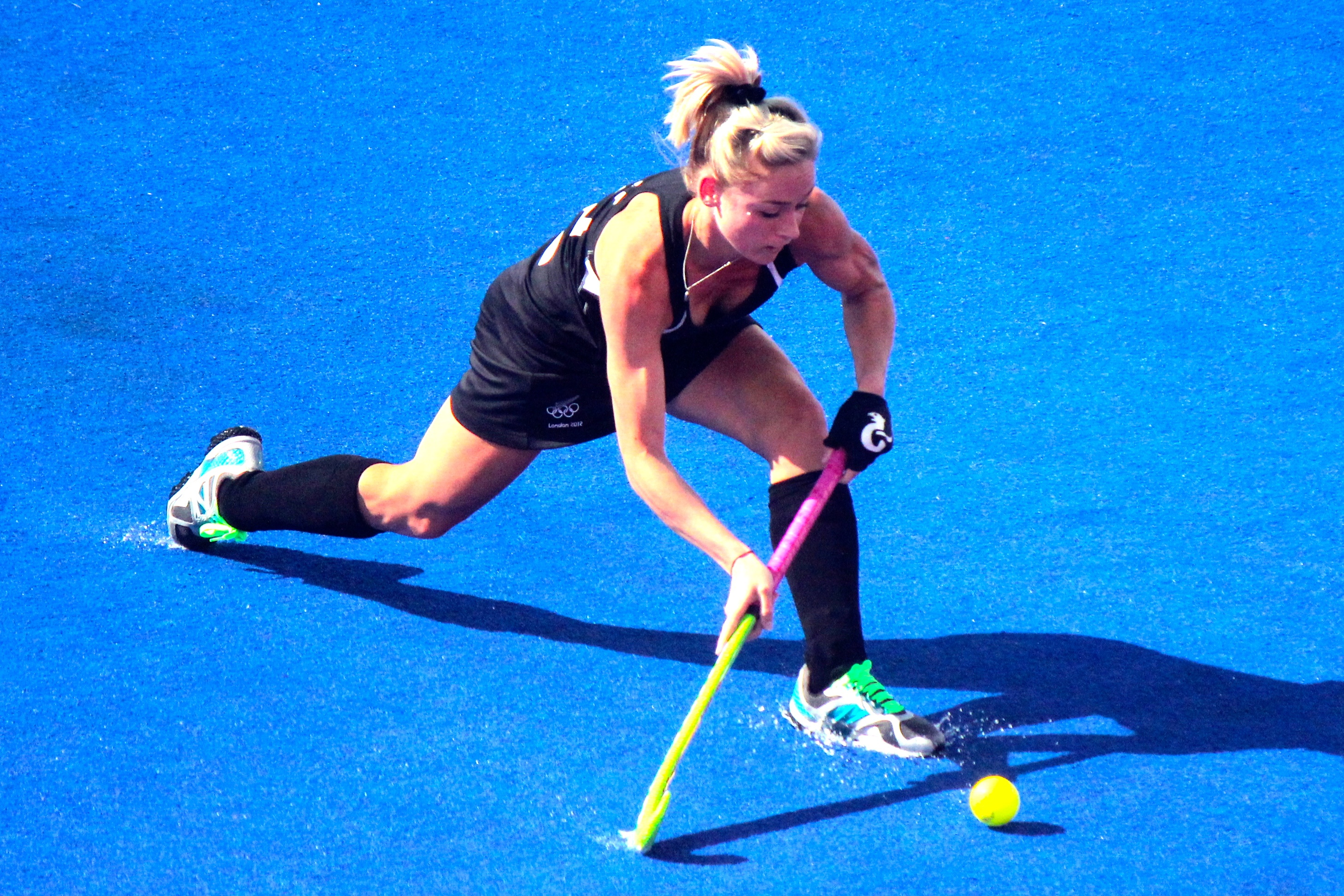 Anita Punt of the New Zealand women's national field hockey team, playing against Australia at the 2012 Summer Olympics in London, United Kingdom, on 29 July 2012.